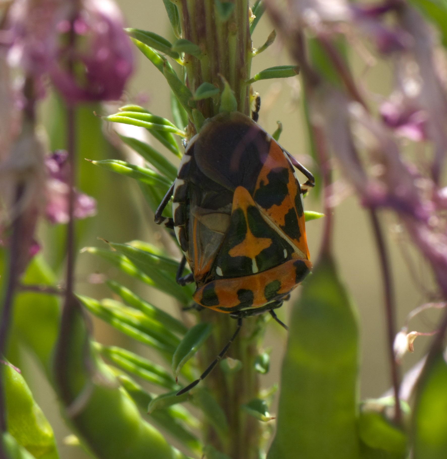 Murgantia histrionica, harlequin bug, ID Confidence: 95